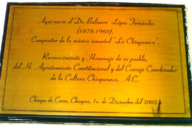 Plaque commemorating the birth of composer Bulmaro Lopez Fernández.